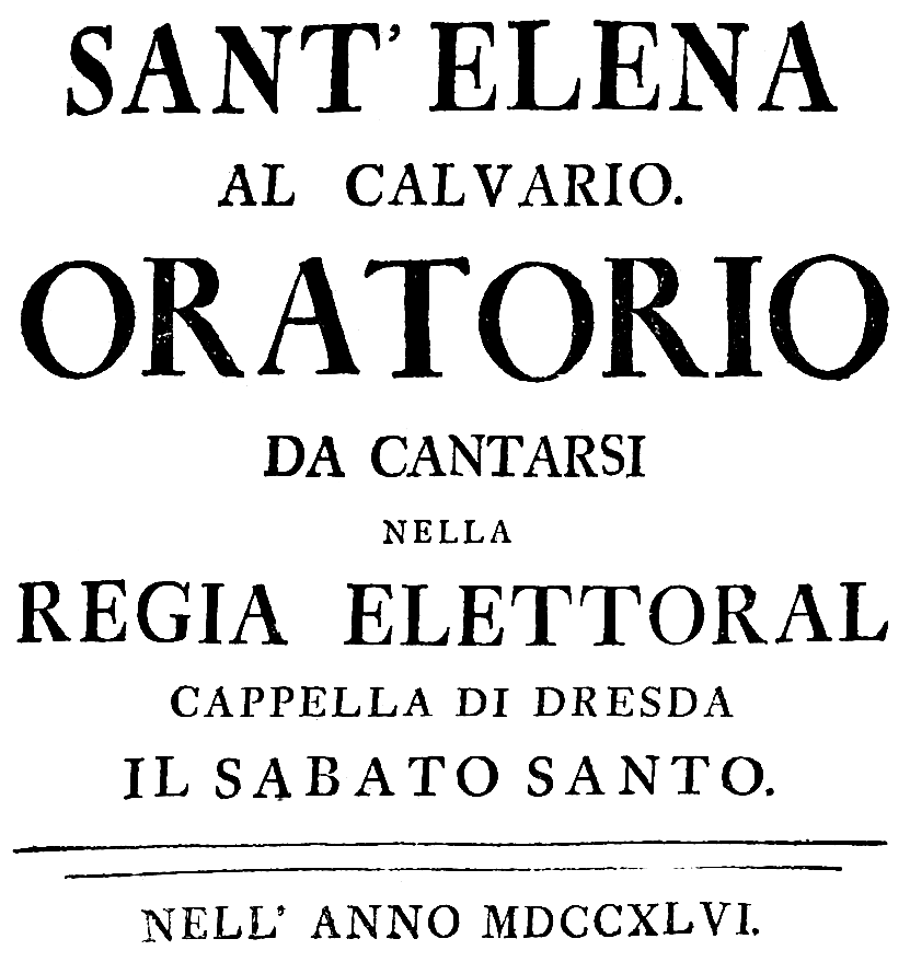 Johann Adolph Hasse - Sant’Elena al Calvario - italian titlepage of the libretto - Dresden 1746